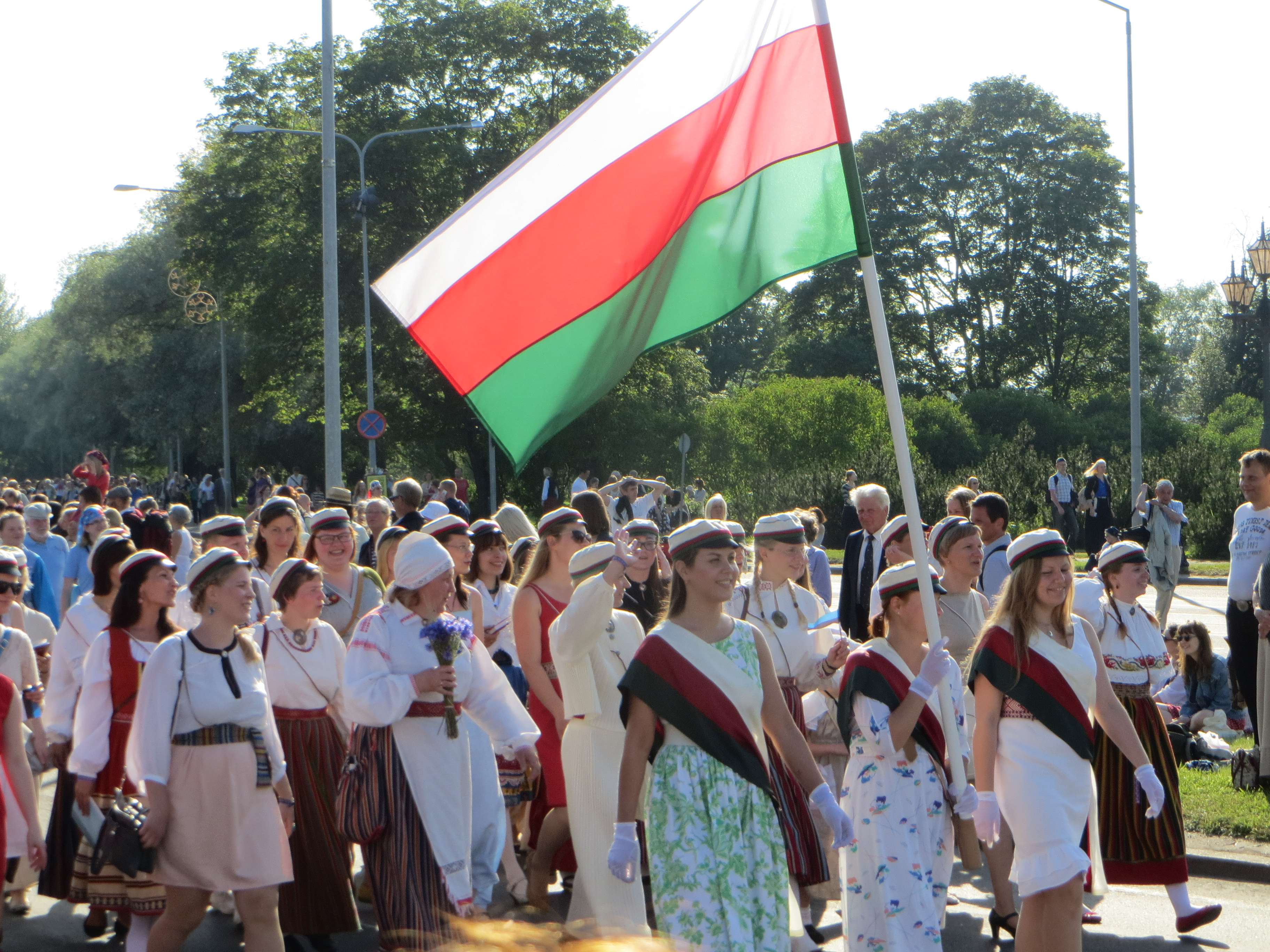 Korp! Filiae Patriae at XXVI Laulupidu Parade